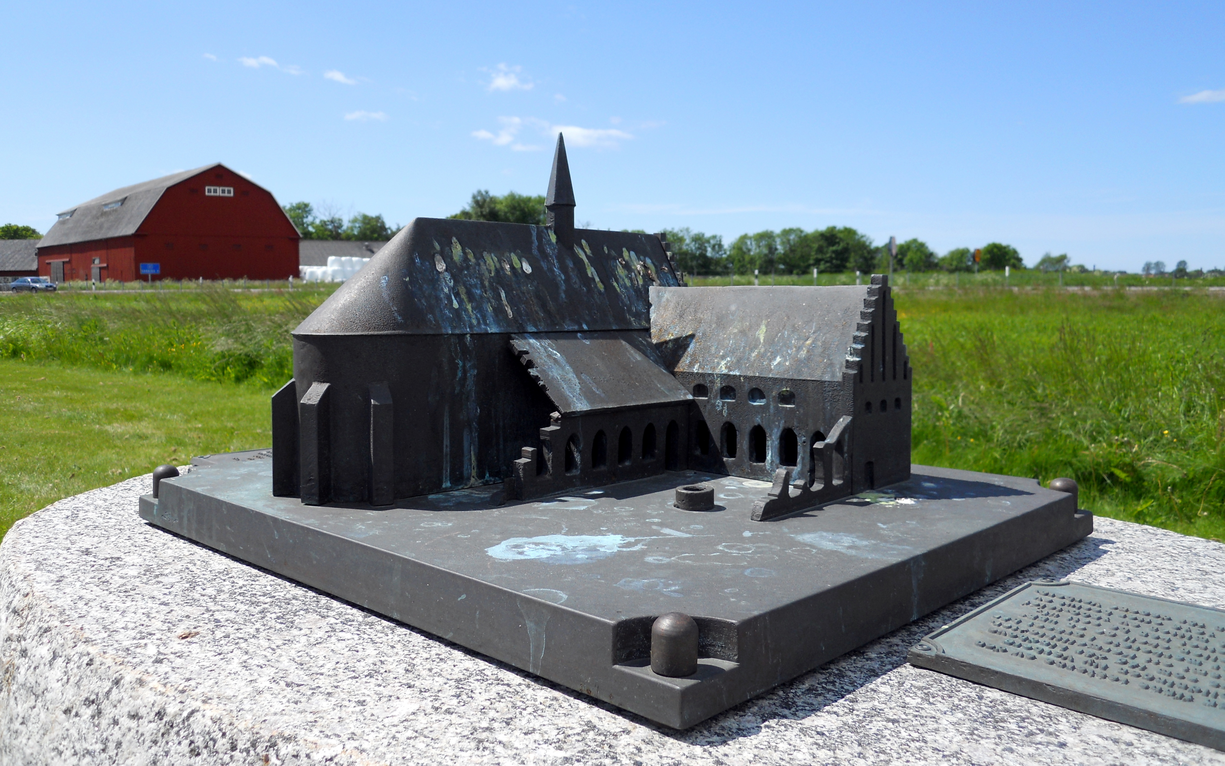 Model of the Monastery of Our Lady, Ny Varberg, Sweden.